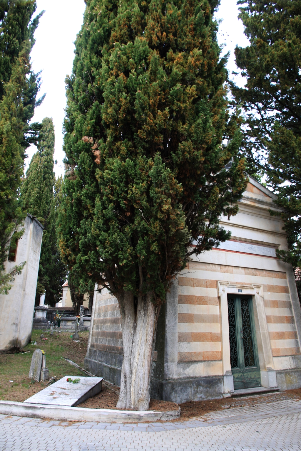 Grave of Karl Heinrich Ulrichs at L´Aquila cemetery